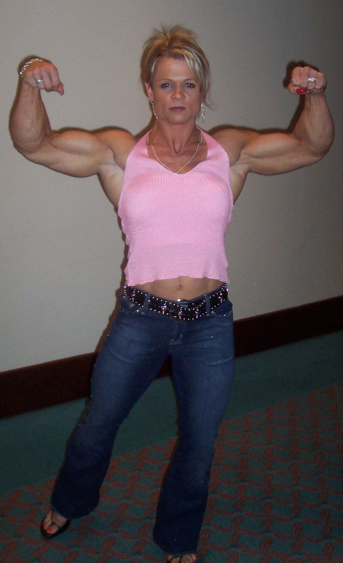 Photograph of female bodybuilder Elena Seiple, taken by Pete Chons at the NPC Jr. Nationals on June 17, 2005.